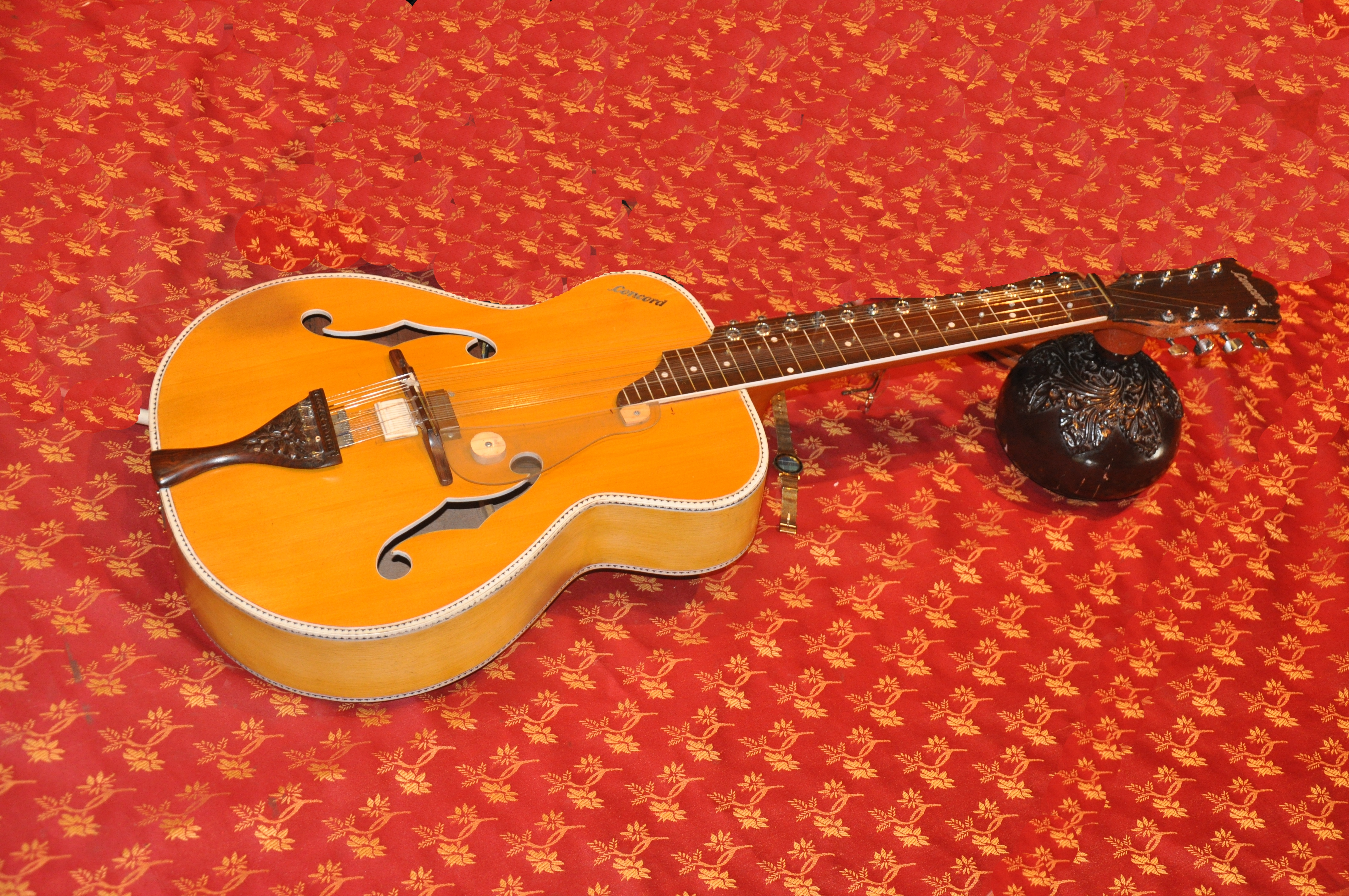 Mohanaveena